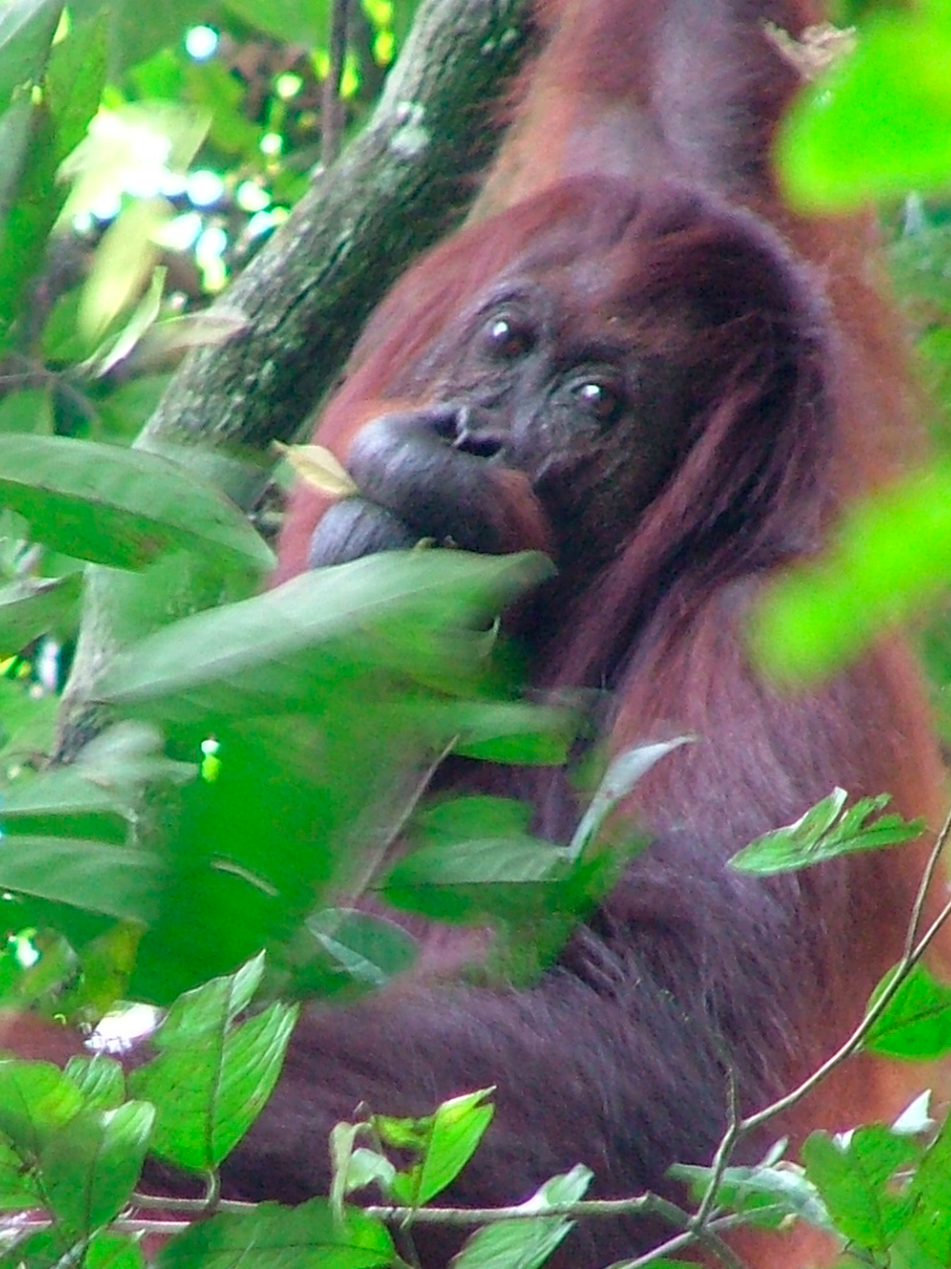 Ongoing deforestation and palm oil plantations leave no room for the orang-utan.